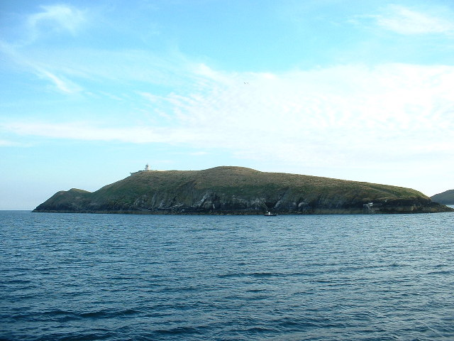 St Tudwal's Island West. The lighthouse is operational. It appears that the lighthouse buildings are occupied, at least temporarily, but the light is automatic these days.